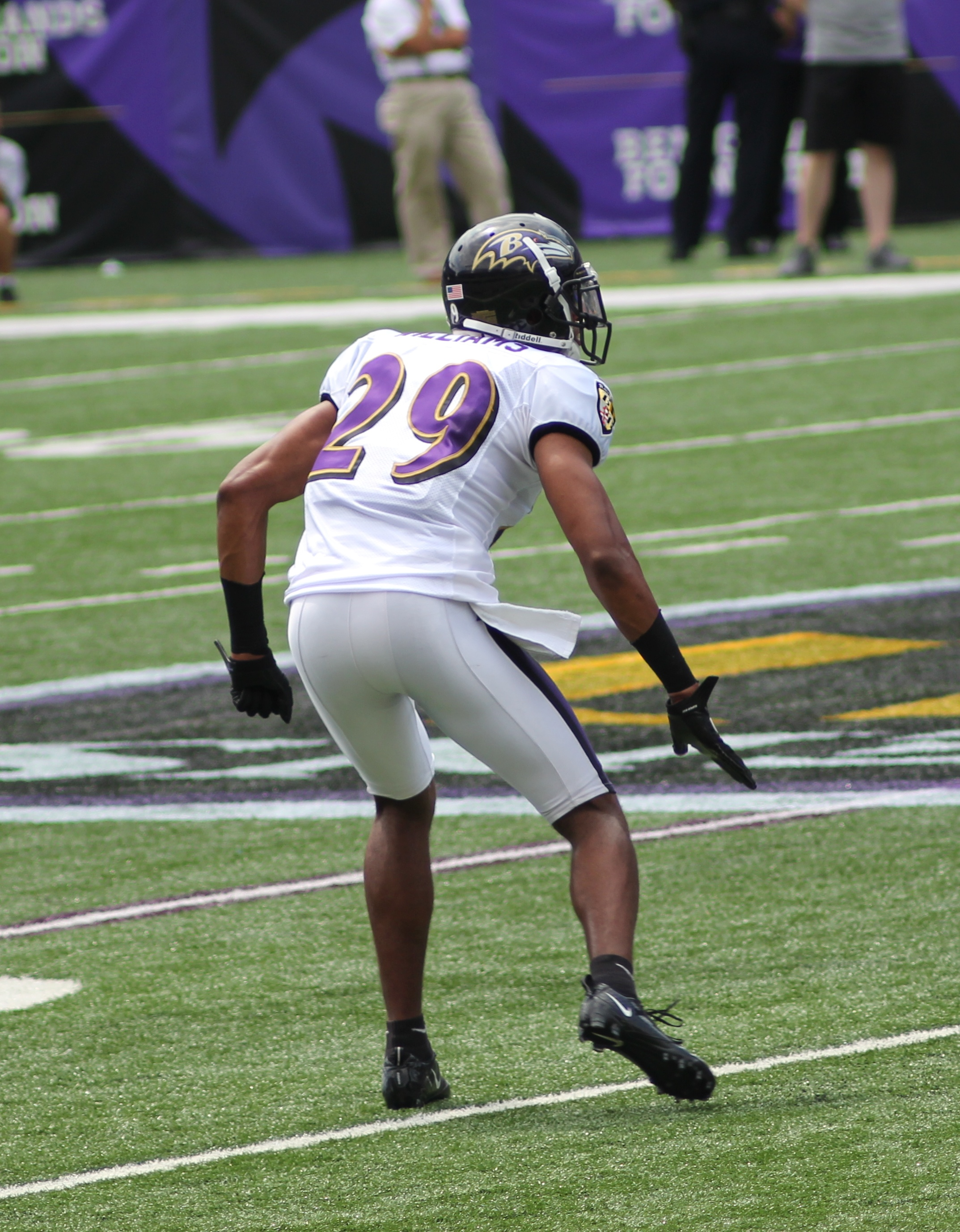 Cary Williams Aug 2011 M&T Bank stadium practice